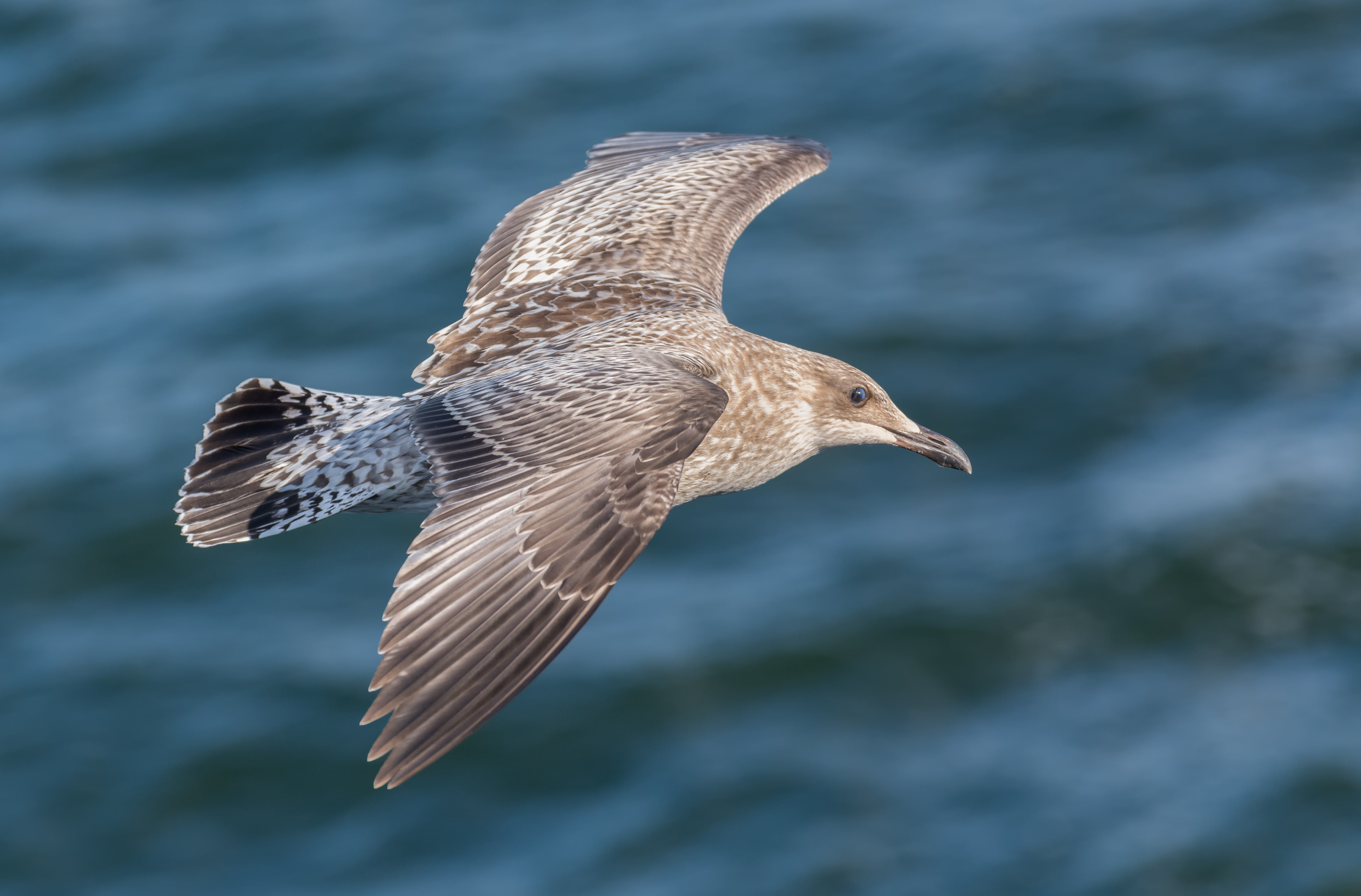 Juvenile European herring gull (Larus argentatus) in fast flight photographed on the transit from Texel to Den Helder